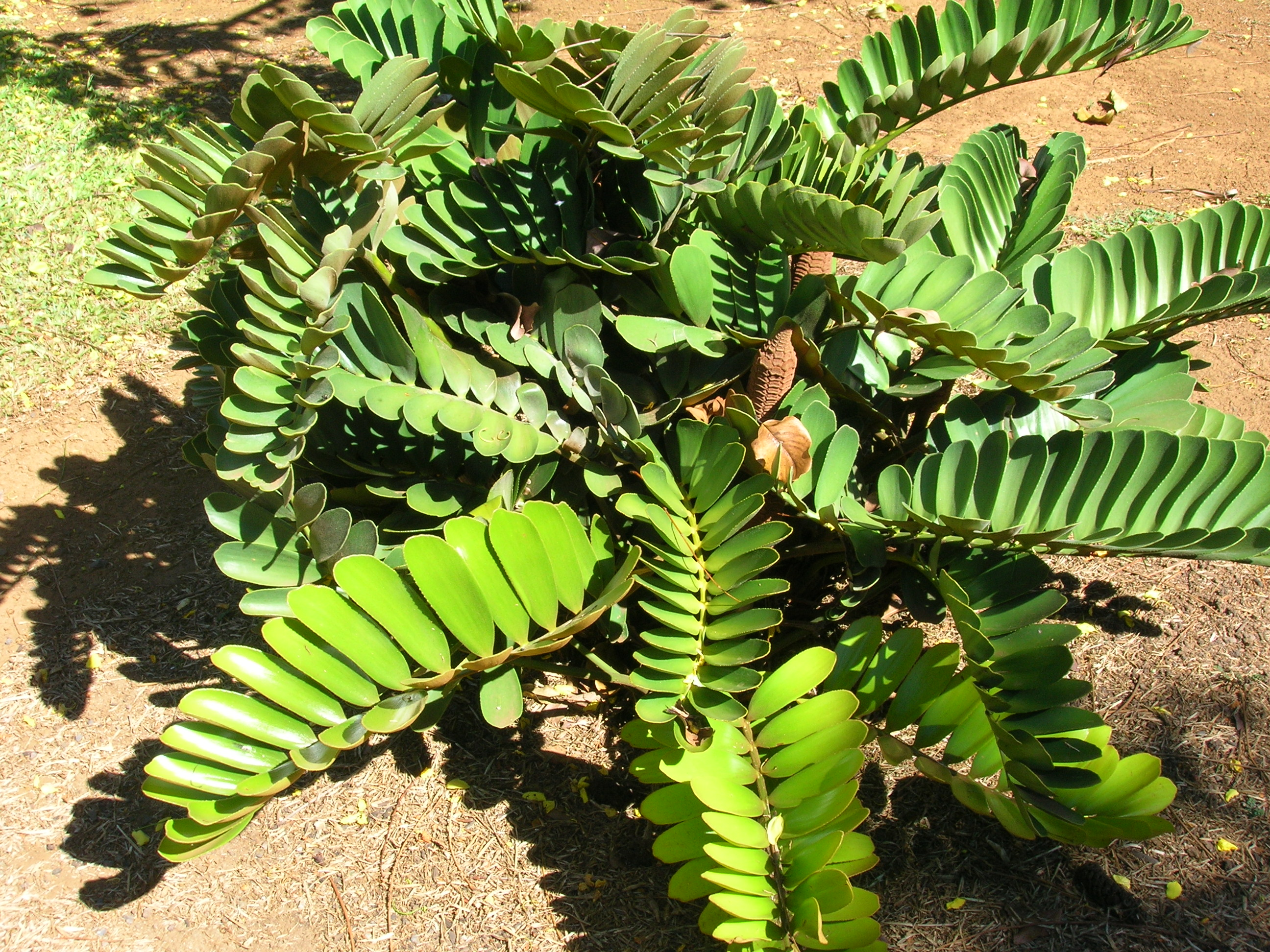 Zamia furfuracea (habit). Location: Maui, Lilikoi Gulch Haiku